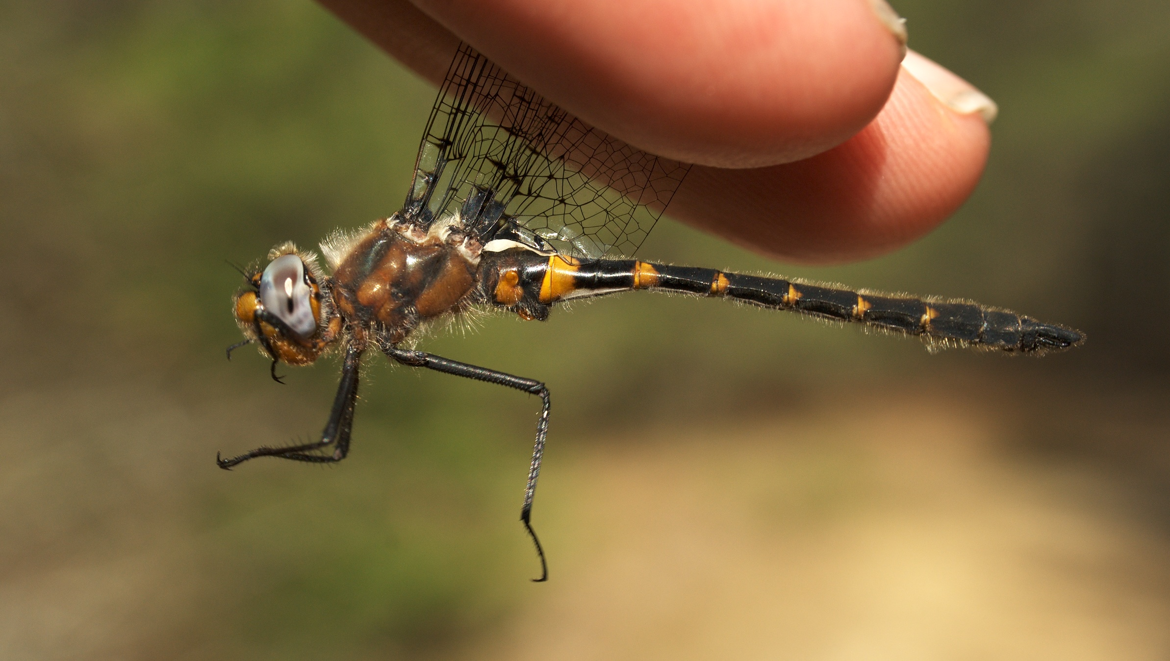 Helocordulia selysii in Caroline County, Maryland.